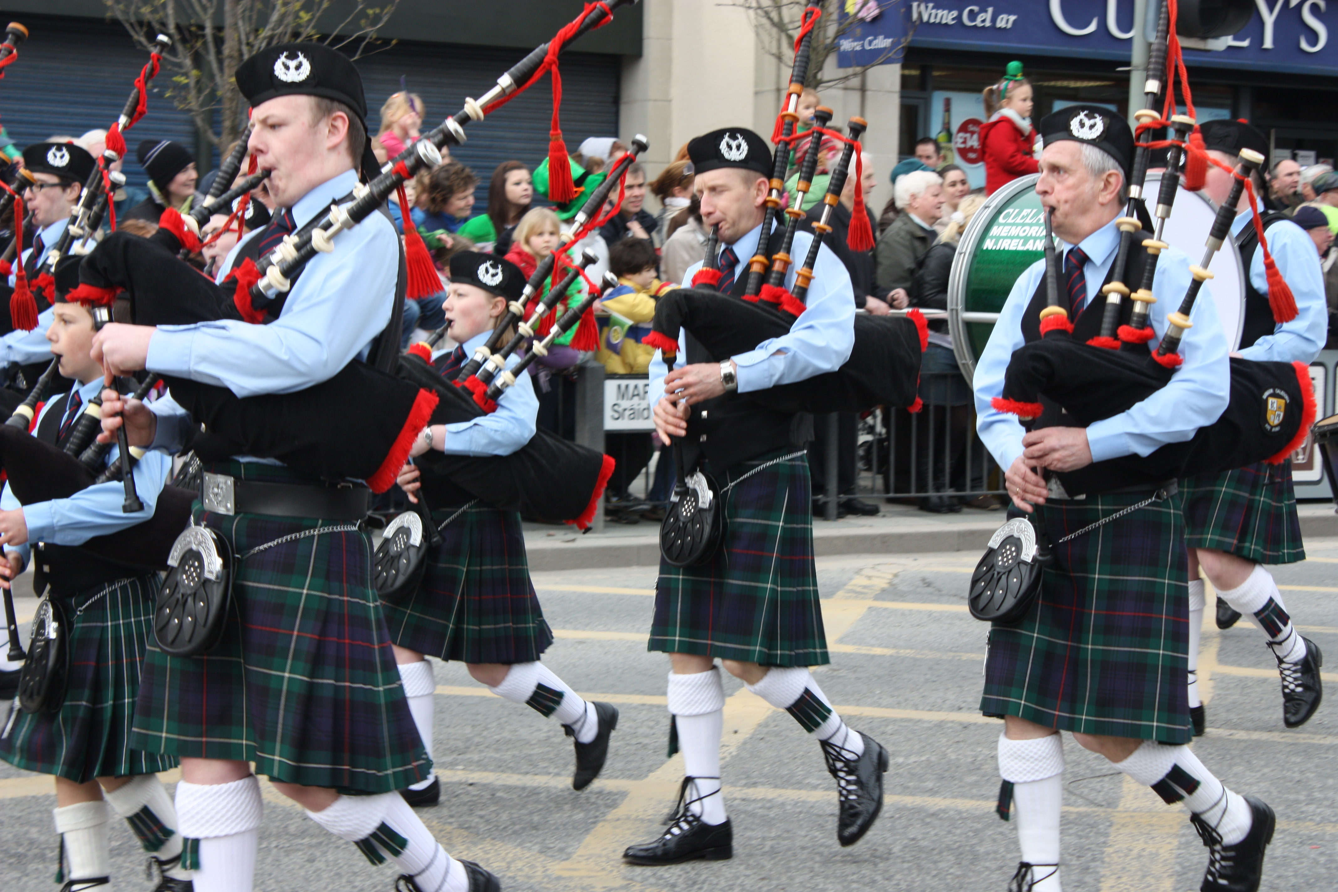 Market Street, Downpatrick, County Down, Northern Ireland, March 2011